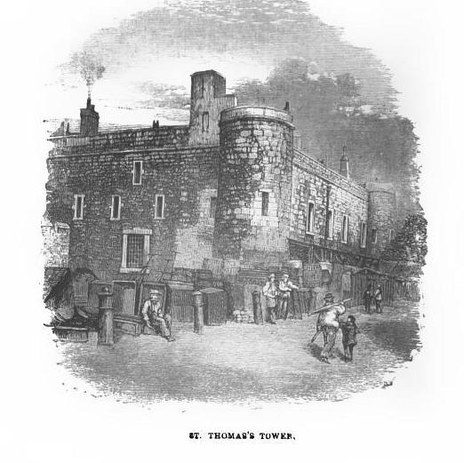 Tower of London: St Thomas's Tower in 1871. From the book "Sketches of the Tower of London, as a fortress, a prison, and a palace, and a guide to the armories", published by the Tower of London in 1871.